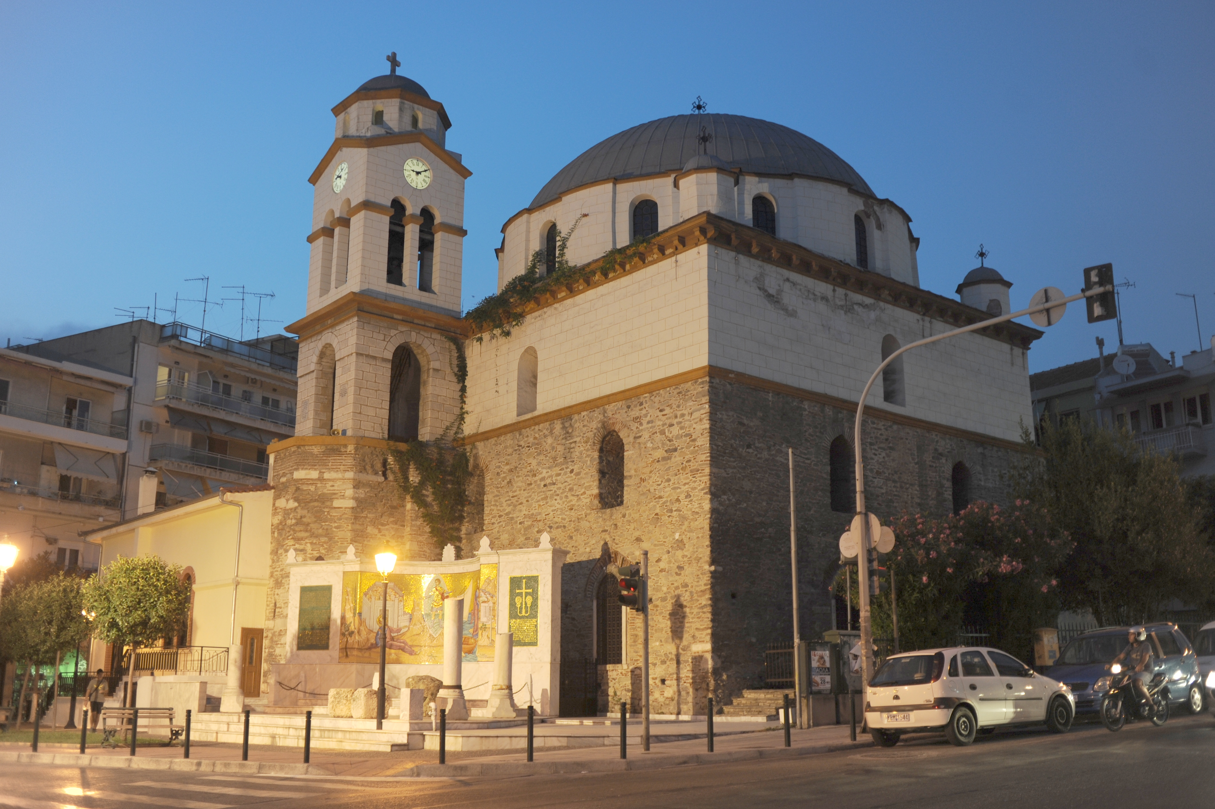 Orthodox church of Agios Nikolaos - former Ottoman Mosque of Ibrahim Pasa, Kavala, Greece.